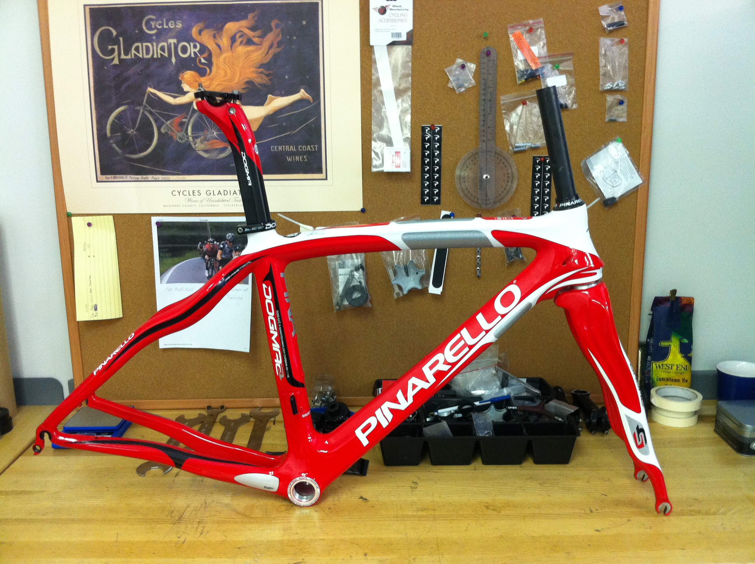 New for 2012 the Dogma 2 replaces the Dogma 60.1 which has been our top selling bike for the last two years. Mostly the same but packed with a host of small changes that promise to add up to a significant change to the original Dogma 60.1 Here for prices and options